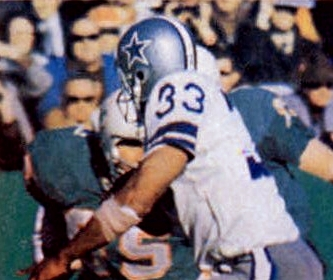 Dallas Cowboys' running back Duane Thomas rushing the ball for a touchdown against the Miami Dolphins in Super Bowl VI.